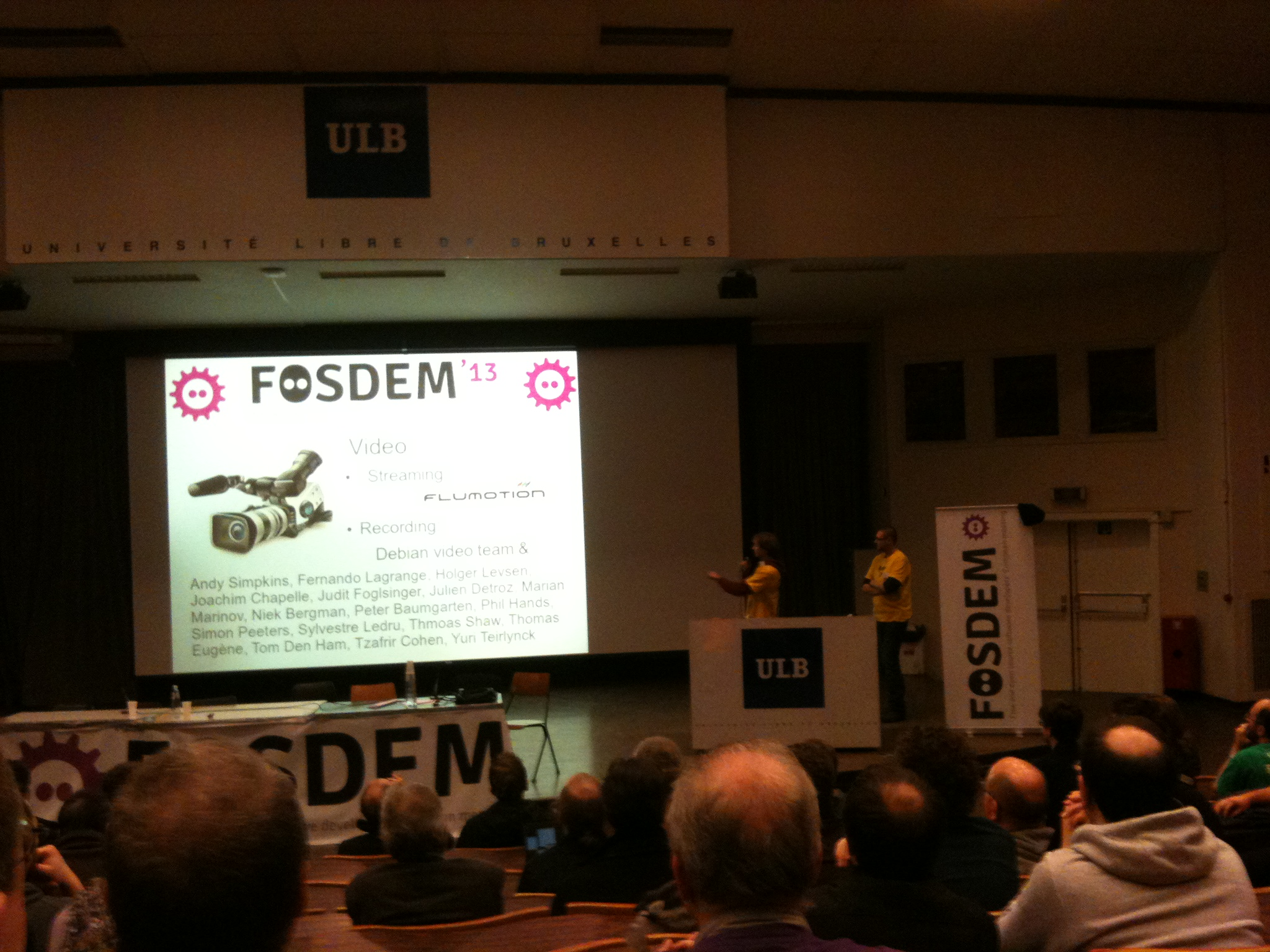 Closing FOSDEM 2013 by FOSDEM Staff at FOSDEM 2013.